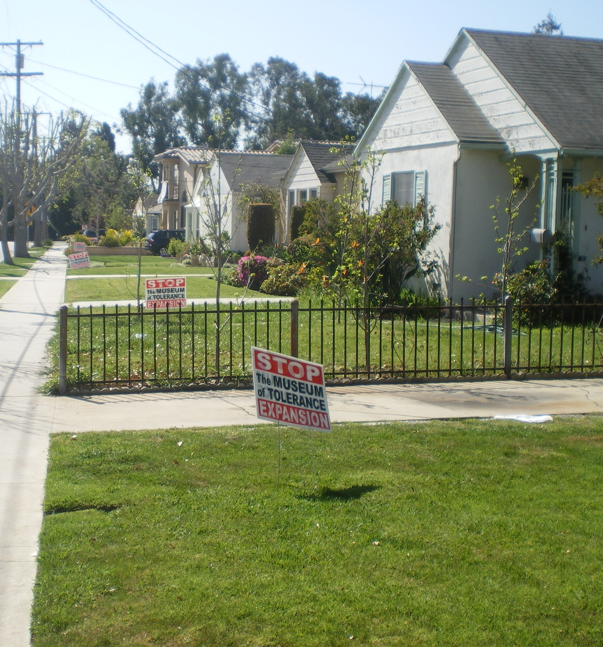 Protest Signs over Museum of Tolerance Expansion, March 2008